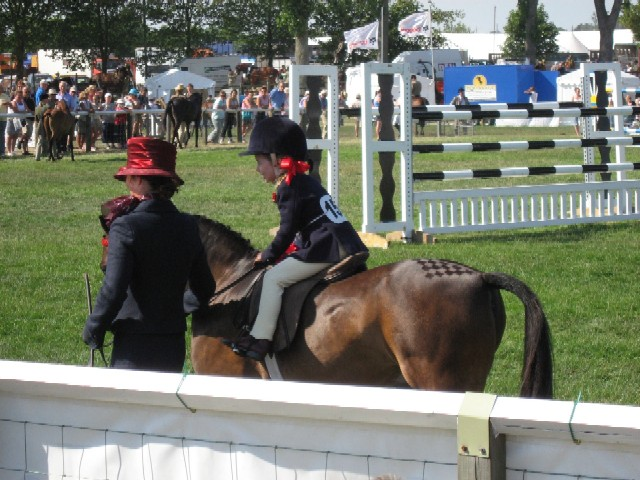 Potential Olympic Competitor. The four year old winner of the Lead Rein Class at Driffield Show, Kelleythorpe, East Riding of Yorkshire, England.